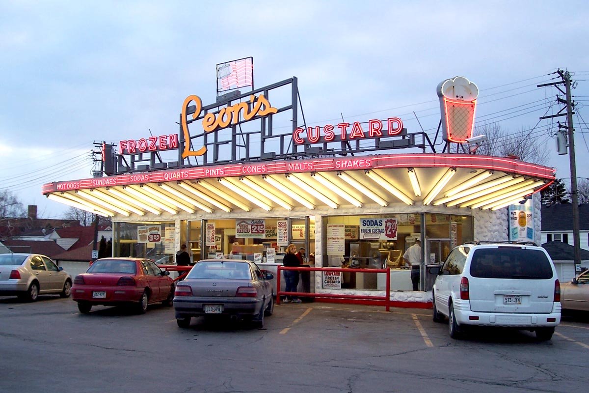 Copyright © 2006 Sulfur Leon's Frozen Custard is a classic 1950s family owned drive-in located in Milwaukee, Wisconsin. It was the inspiration for the original Arnold's Drive-In from the television sitcom Happy Days.